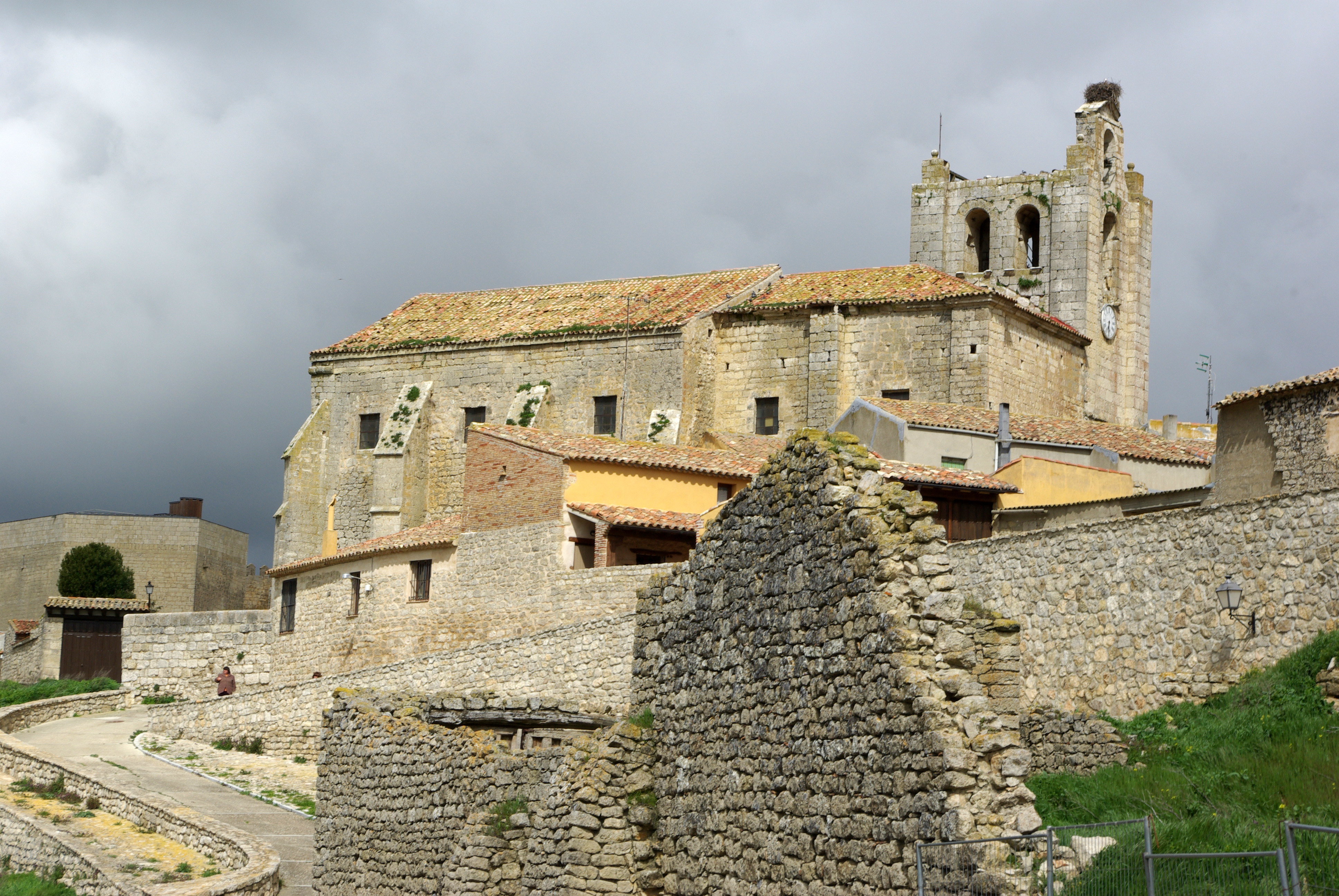 Church of Saint Peter in Montealegre (Valladolid, Spain)